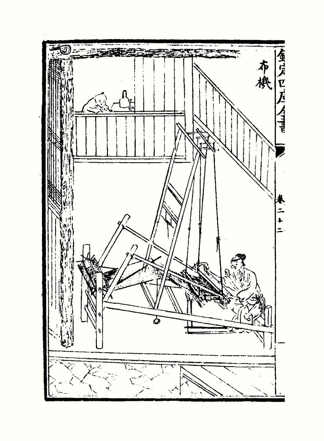 Illustration of a loom in Wang Zhen Nong Shu